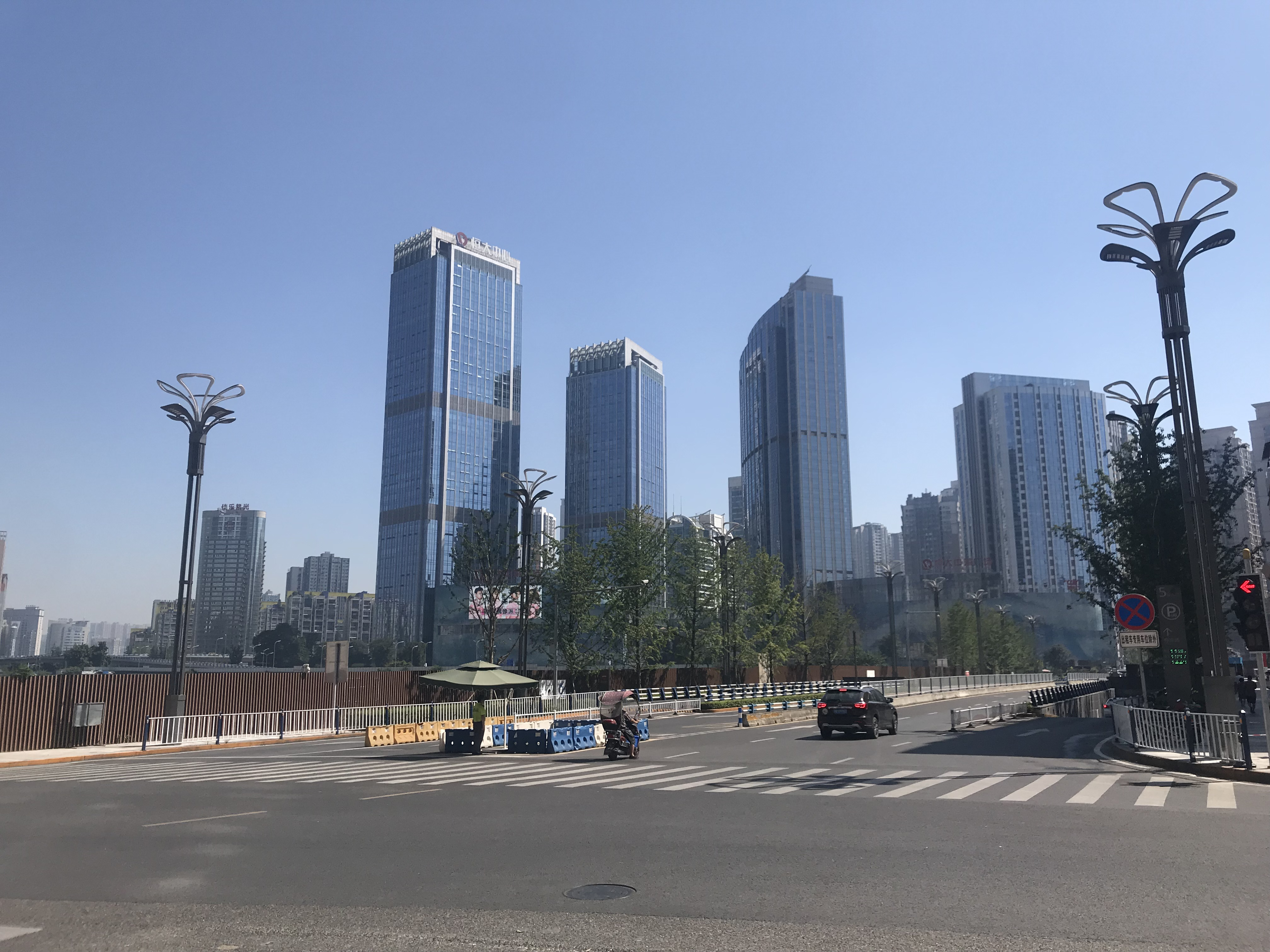 201908 Evergrande Center Chongqing